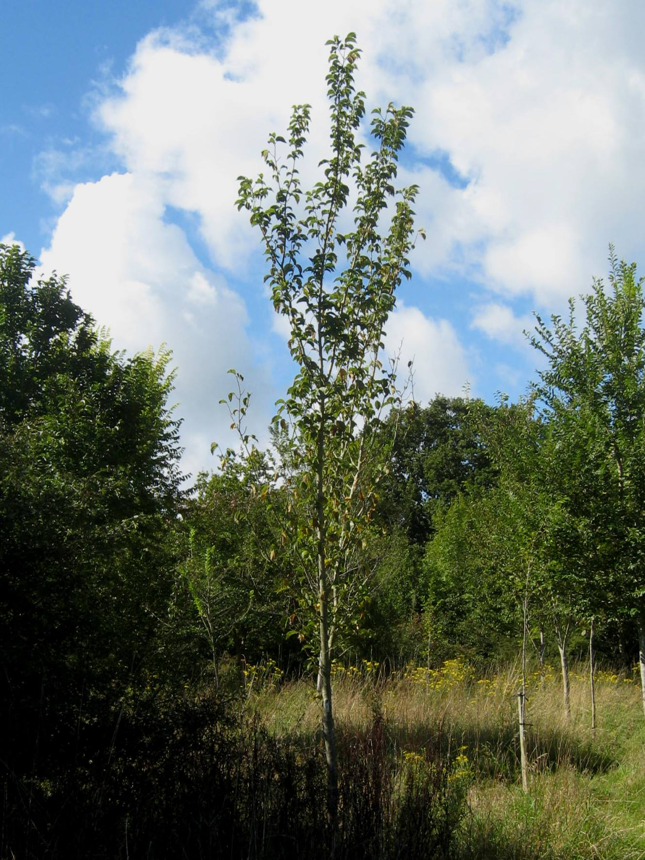 Ulmus VADA planted 2008 at Great Fontley UK